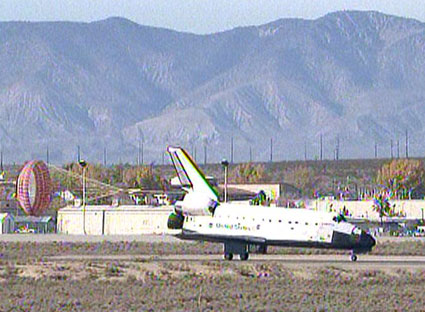 Space shuttle Endeavour and the STS-126 crew land at Edwards Air Force Base, Calif. after completing a mission to the International Space Station.